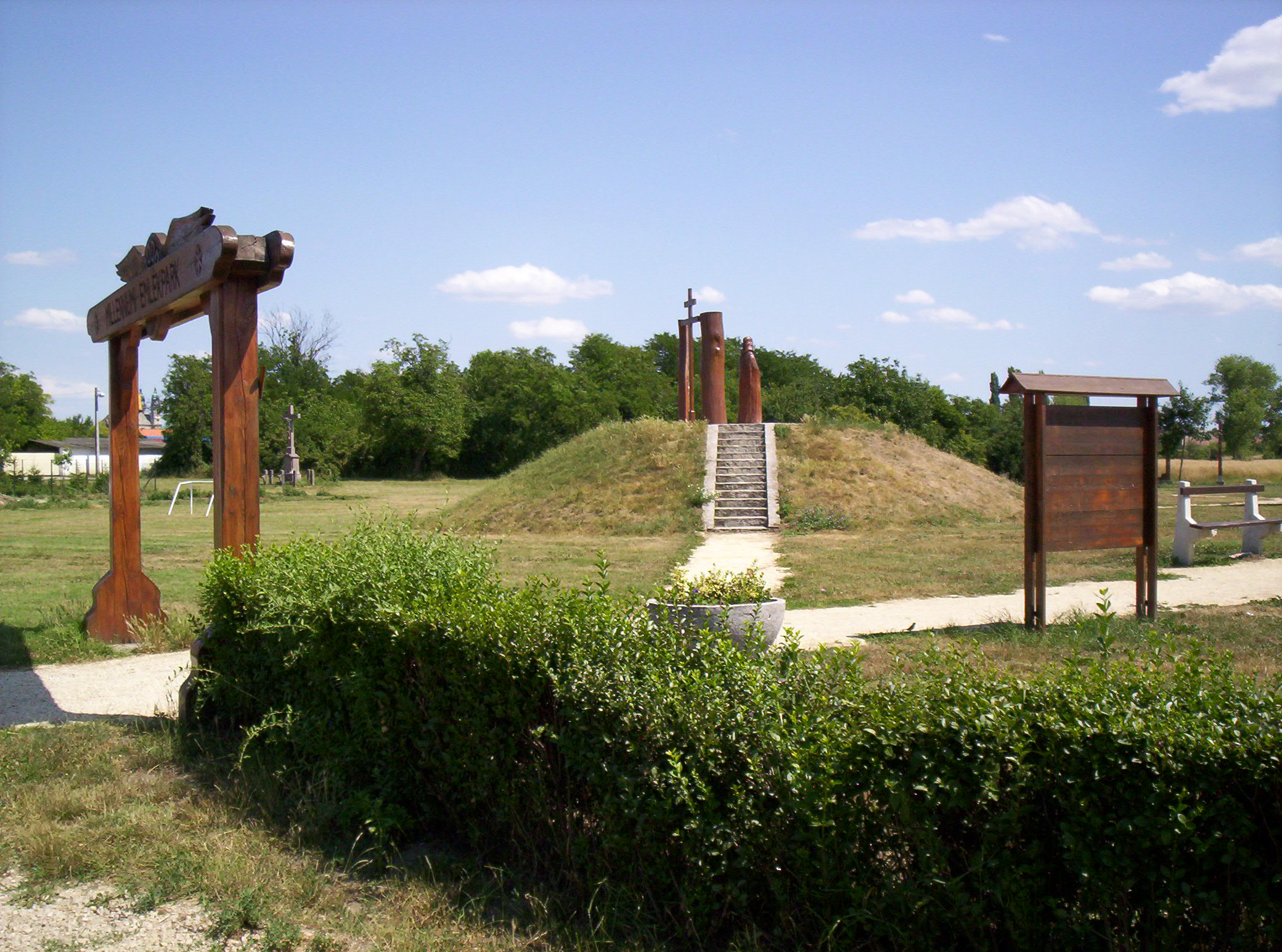 The Millenary Memorial Park in Pápa, Hungary A pápai Millenniumi Emlékpark